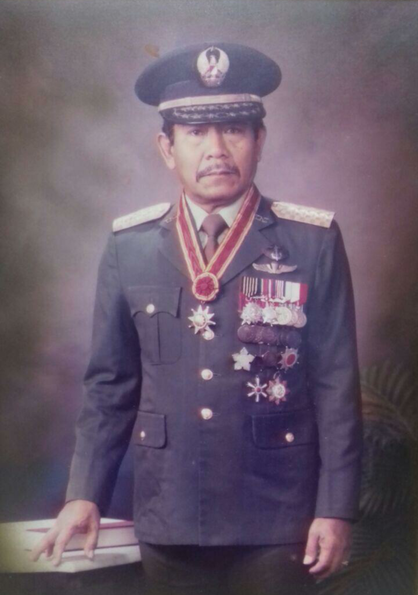 Jenderal TNI Purnawirawan Widjojo Soejono